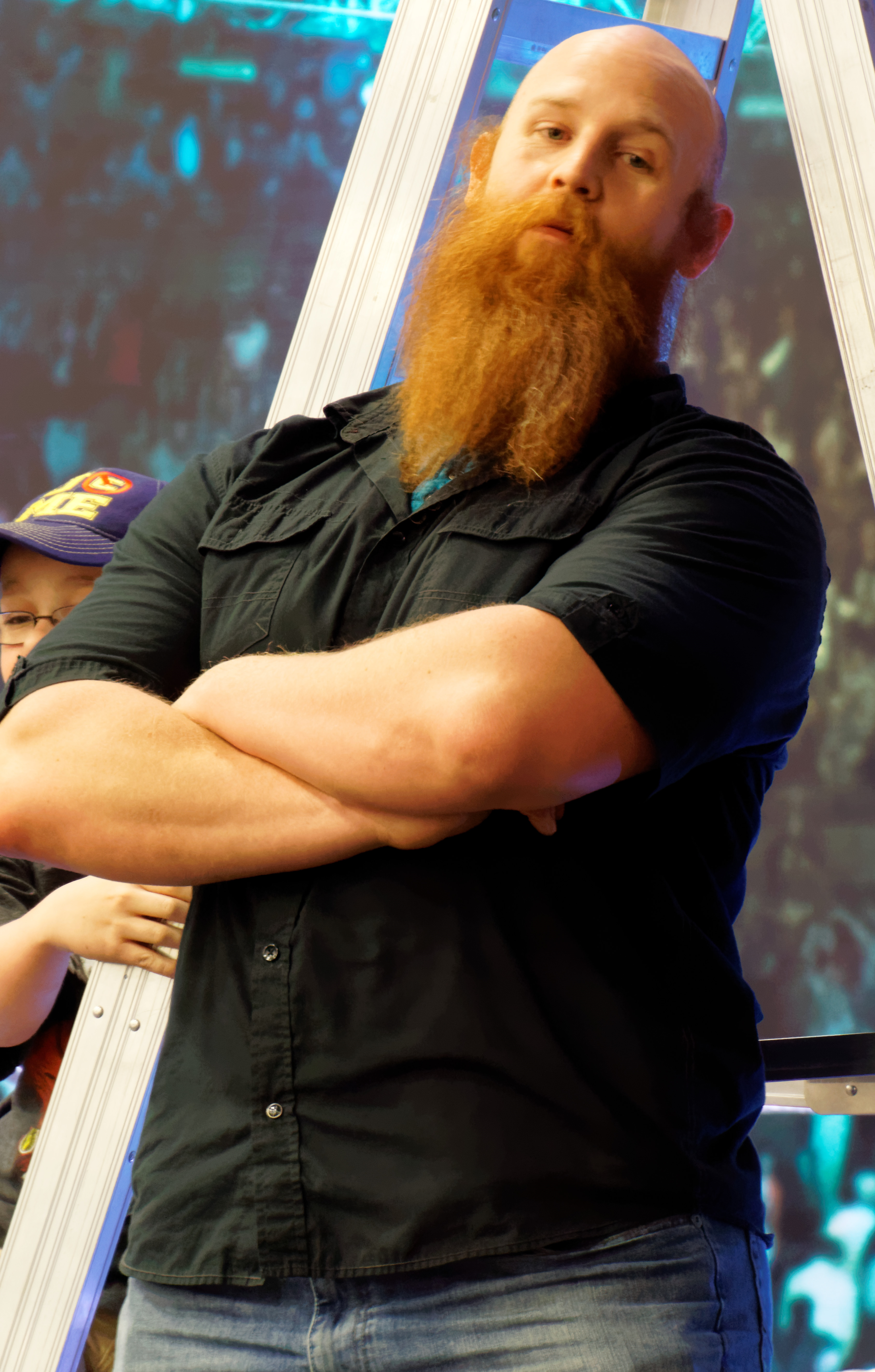 Erick Rowan at WrestleMania 32 Axxess in April 2016.